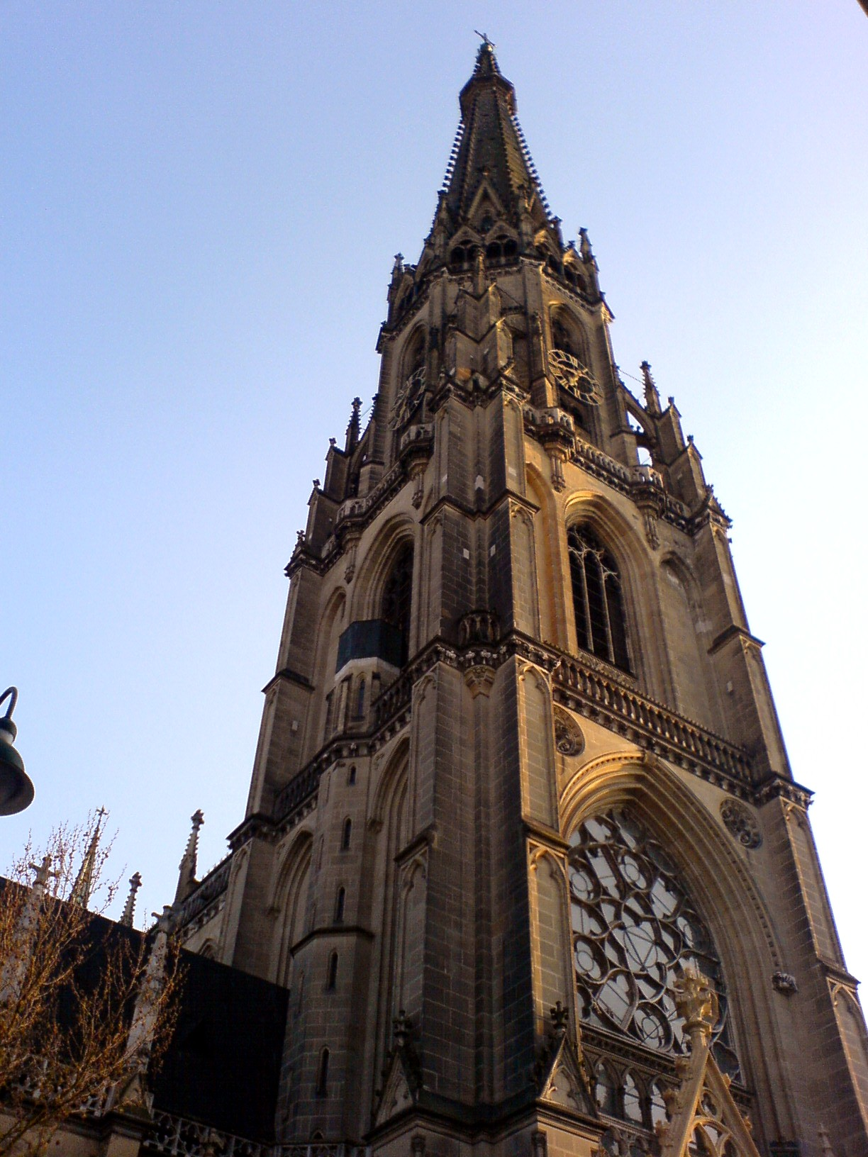 Austria, Linz, New Cathedral